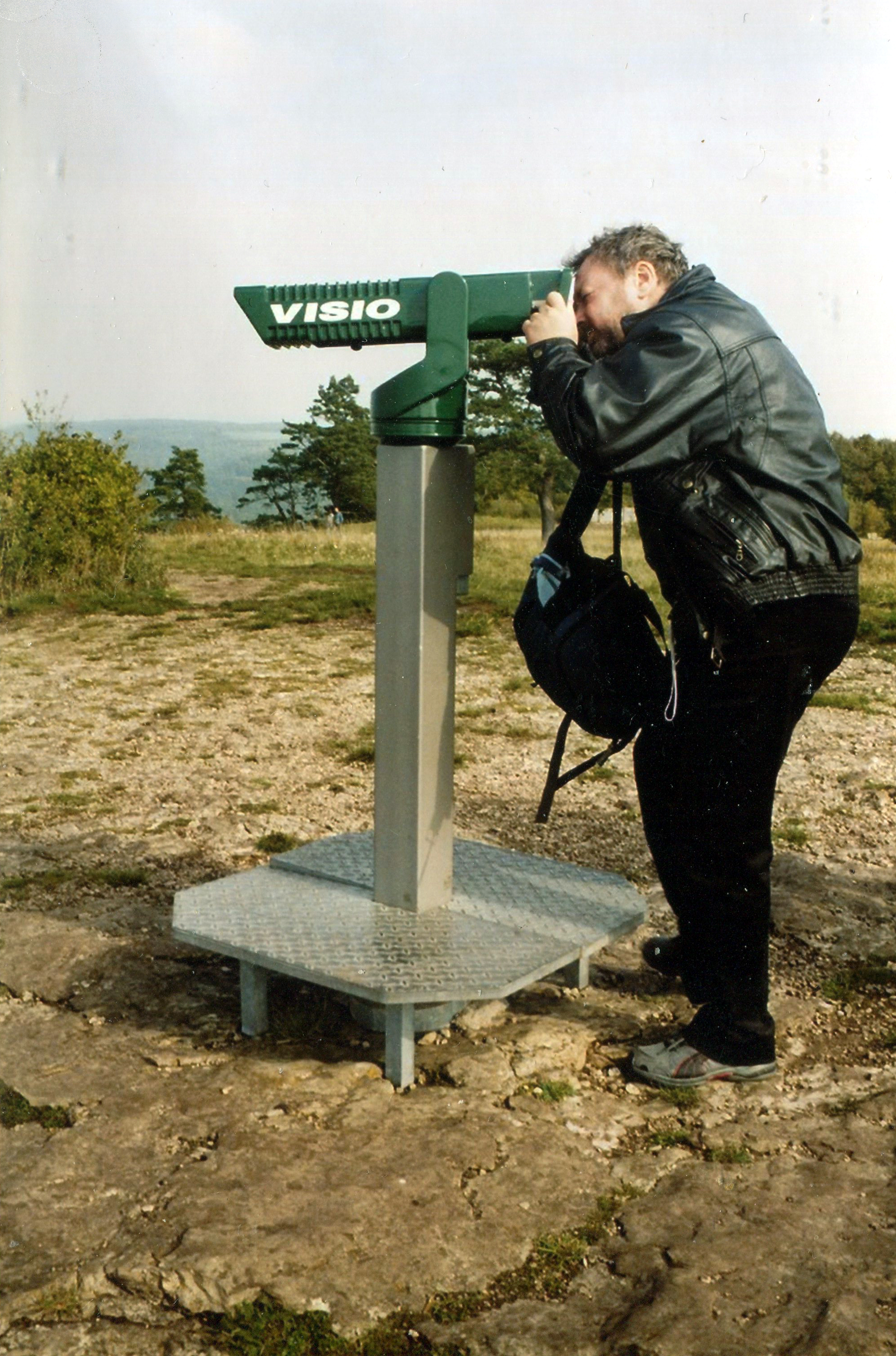 Man surveys the surrounding area with mount Staffelberg